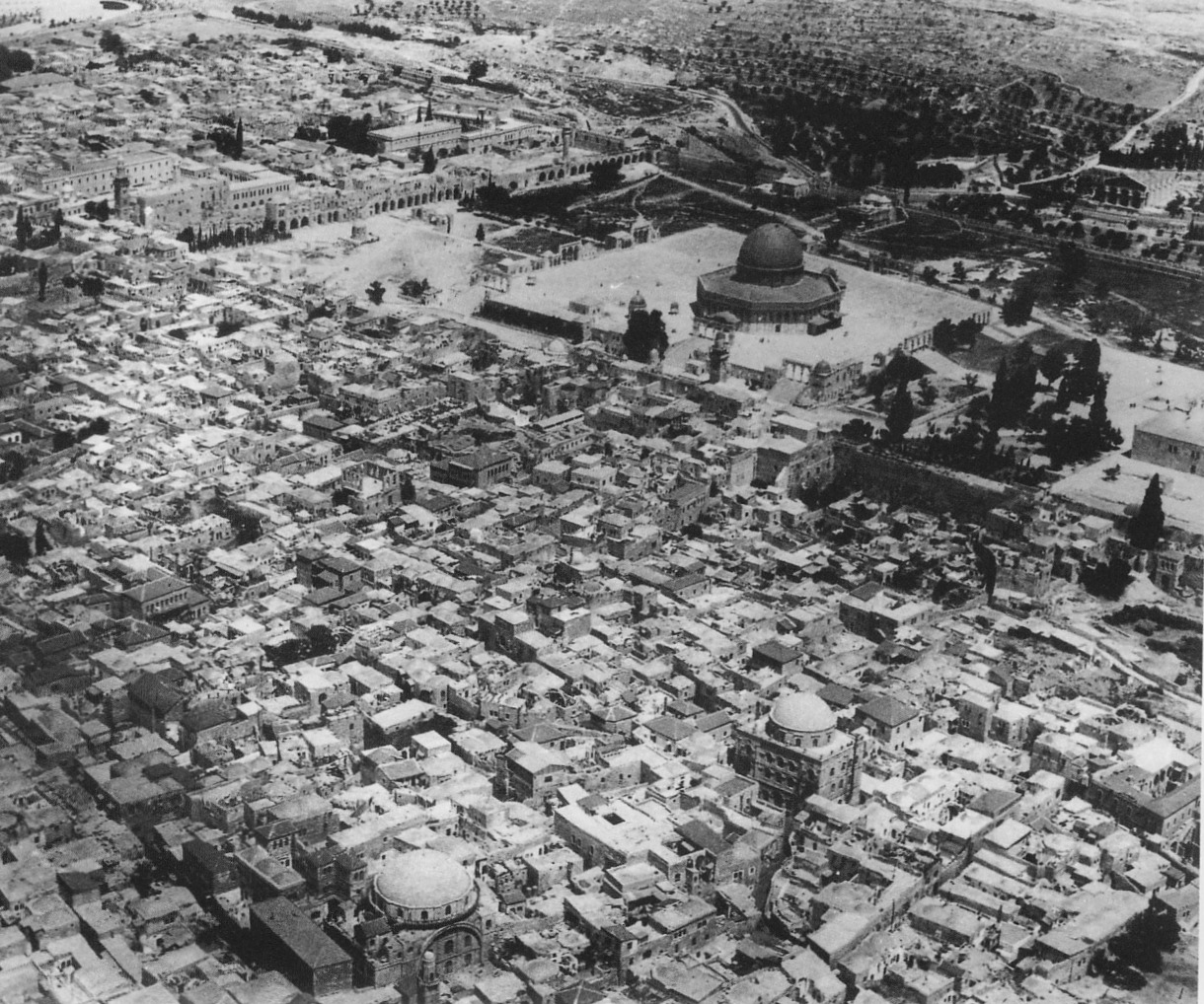 The Old City of Jerusalem in 1937. The Jewish quarter is at the bottom of the image. The buildings and houses in the centre are part of the Mughrabi (Moroccan) Quarter which was destroyed by the Israeli Army in 1967. The two large domes are the Hurva Synagogue and the Tiferet Yisrael synagogue. Both were destroyed by the Arab Legion in the 1948 War. The Western (Wailing) Wall is clearly visible right of centre.